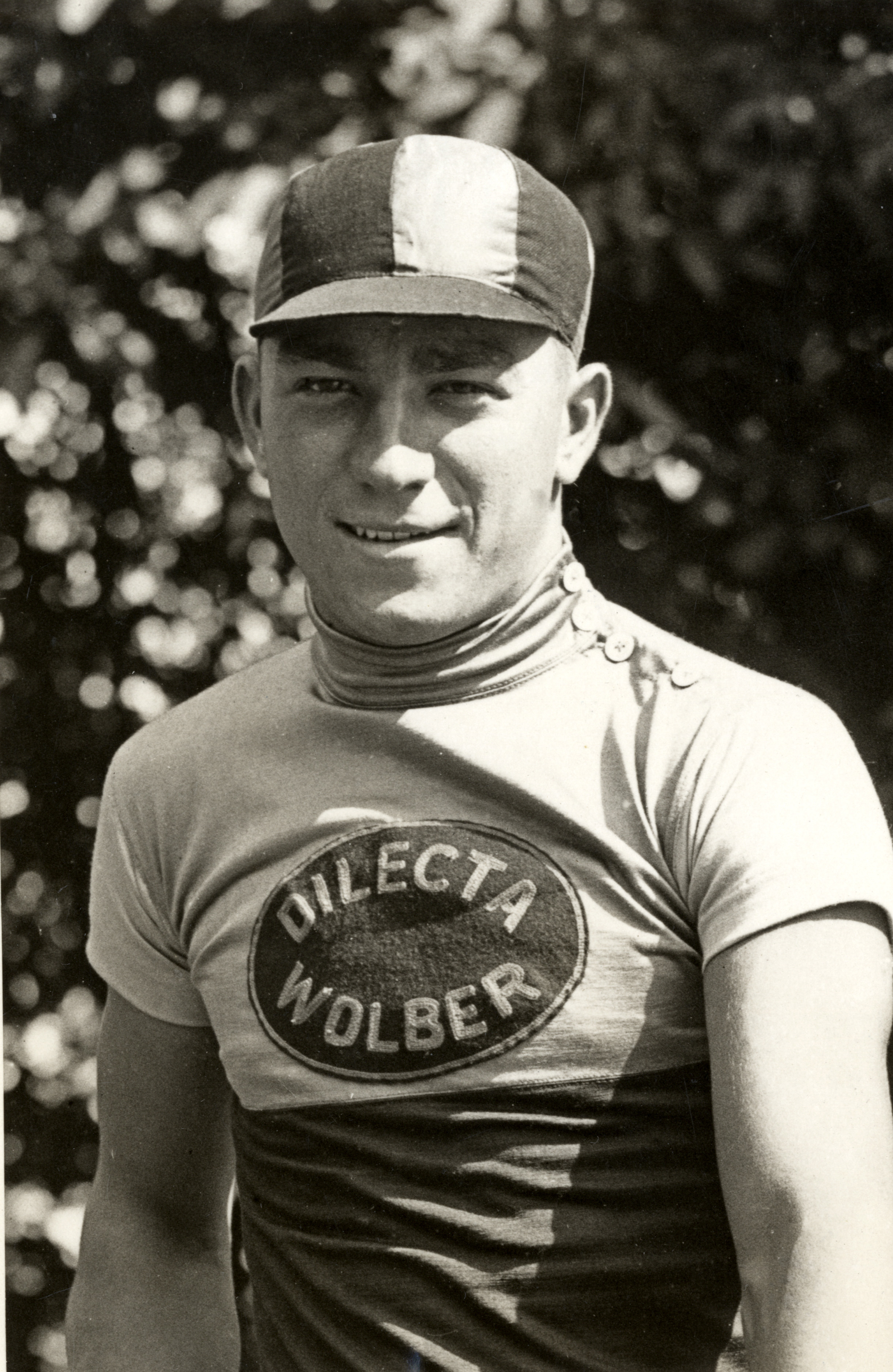 French racing cyclist Jean Maréchal, participant of the 1931 Tour de France, 25 June 1931.